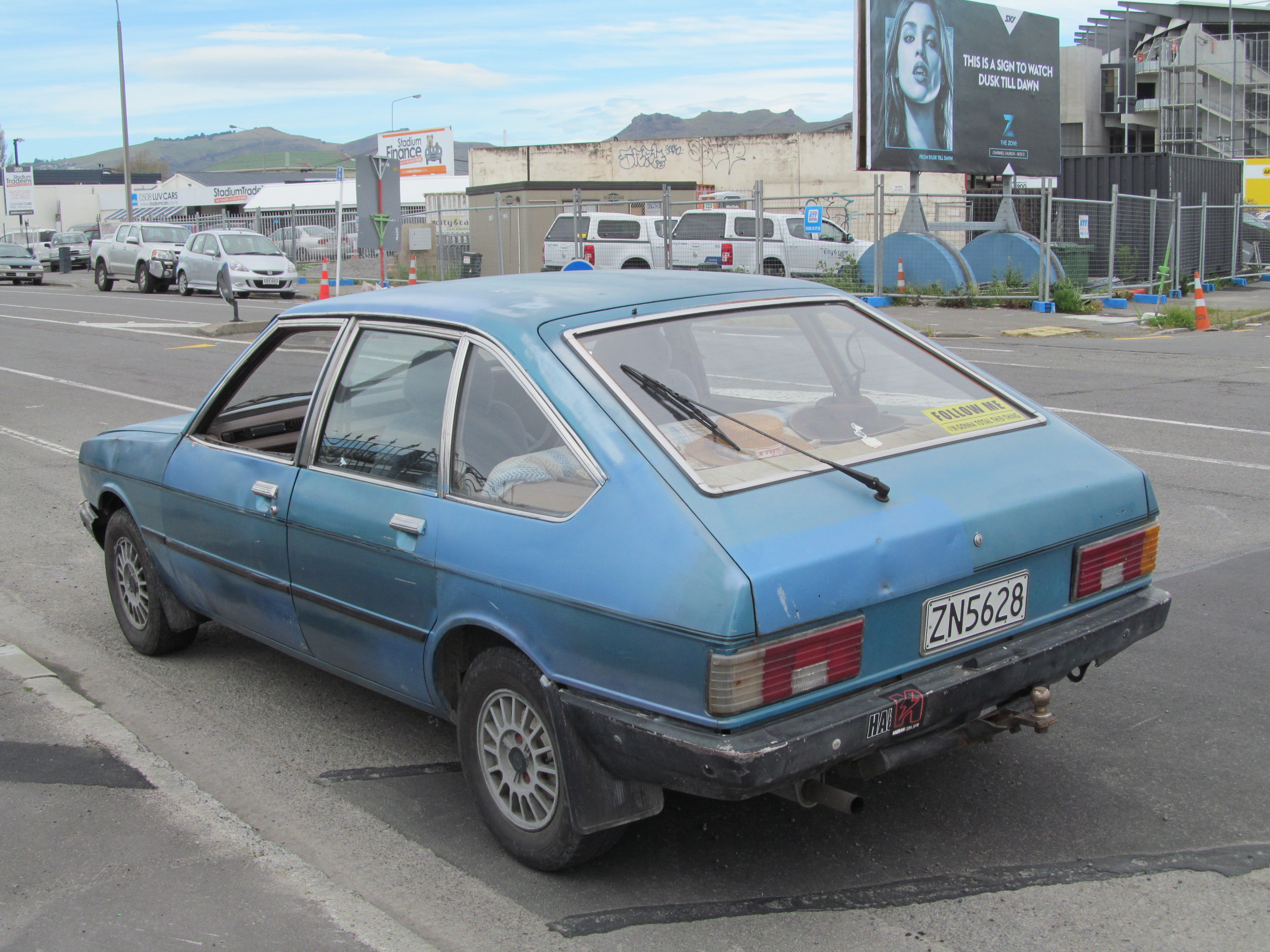 This was so many different shades of blue that it took me a bit to work out what the original colour was. The interior was full of stuff too!